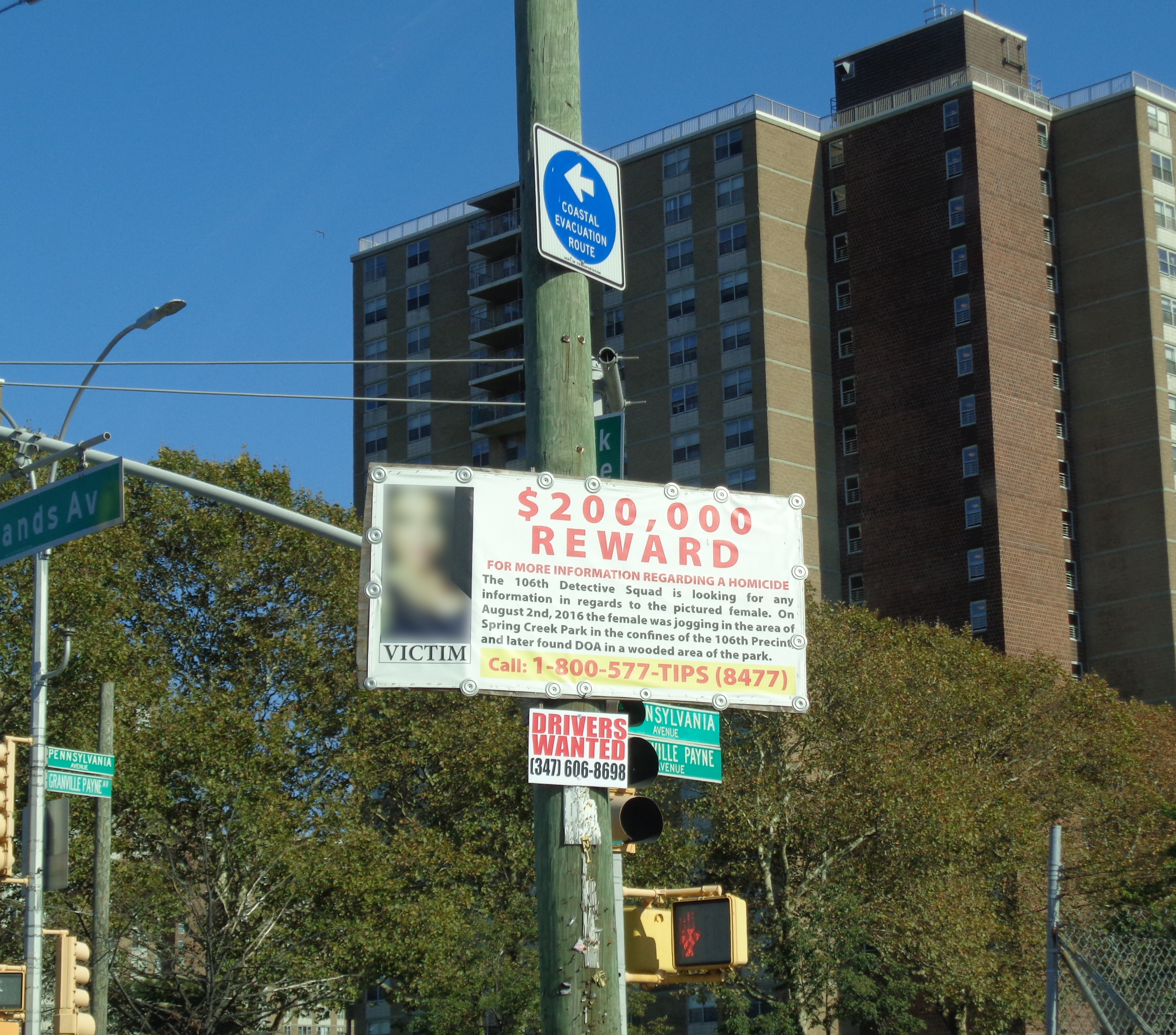 A reward sign for information concerning the murder of Karina Vetrano at Flatlands Avenue and Pennsylvania Avenue in Starrett City, Brooklyn.